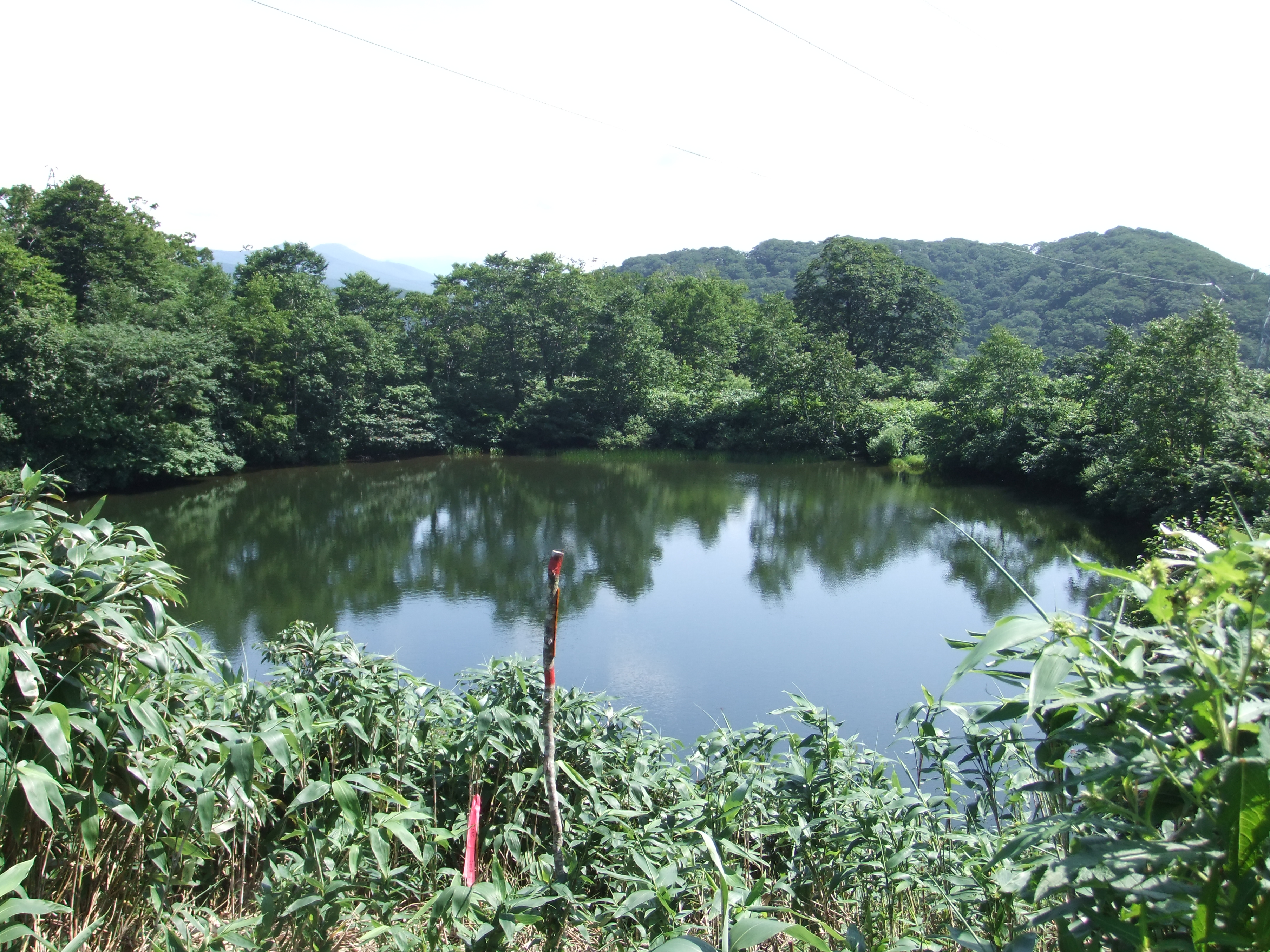 Hiya-gata (moor), at Sin-Sengan-touge (pass) in Japan.